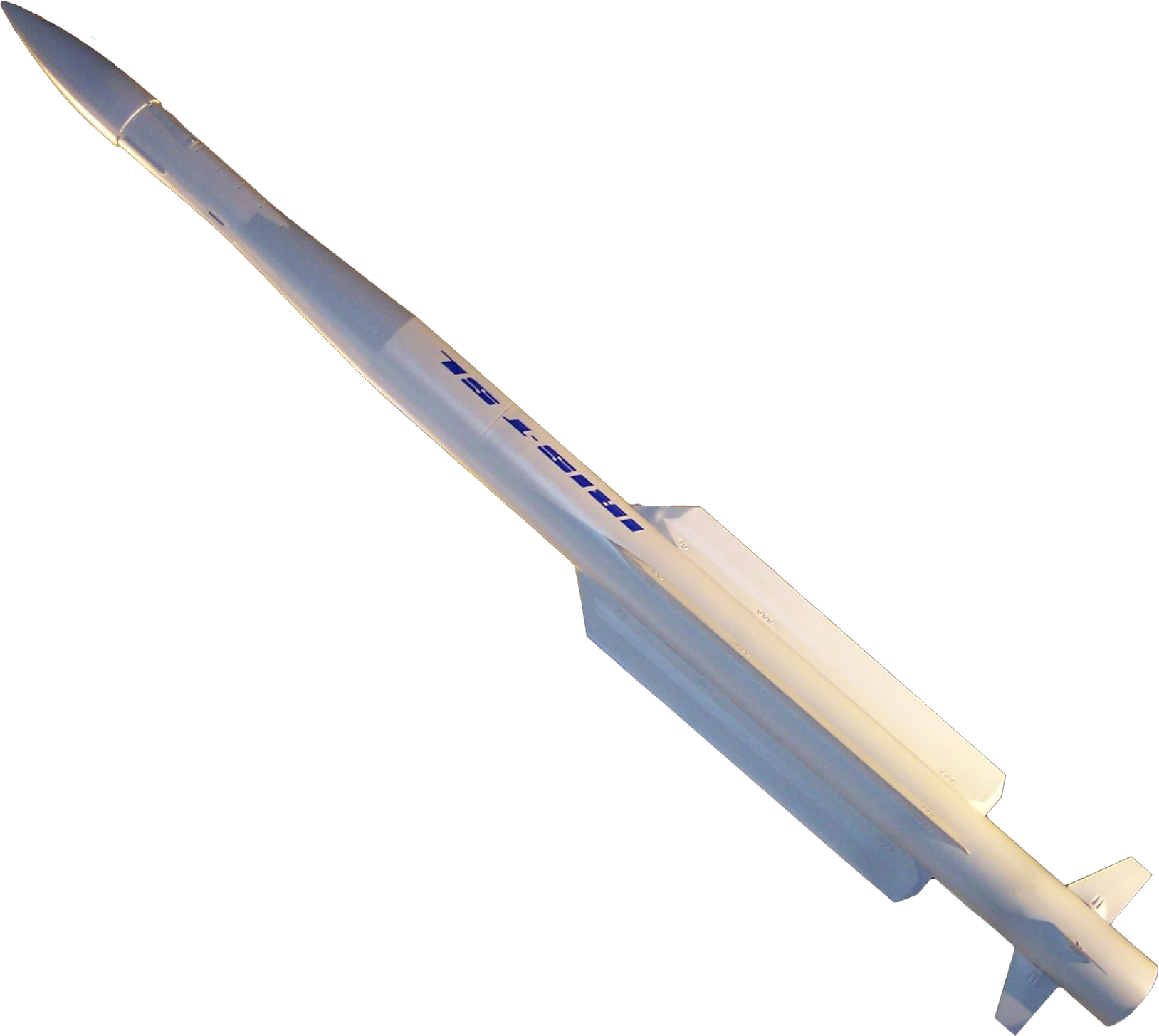 Detoured version of Image:BGT IRIS-T SL.jpg *Description: BGT IRIS-T SL *Source: Stahlkocher